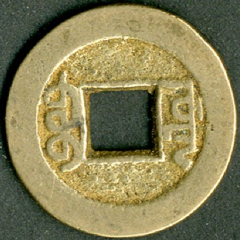 This is a photo of a coin of China, the coin was minted in the Qianlong Era (1735–1796). According to the copyright law in China, it has been in public domain.